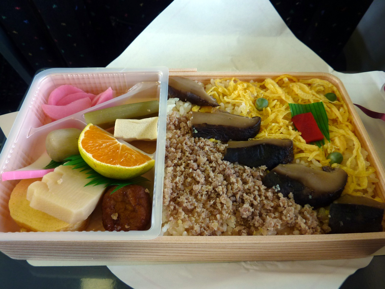 Shiitake Gohan - Ekiben (Miyazaki City, Japan)